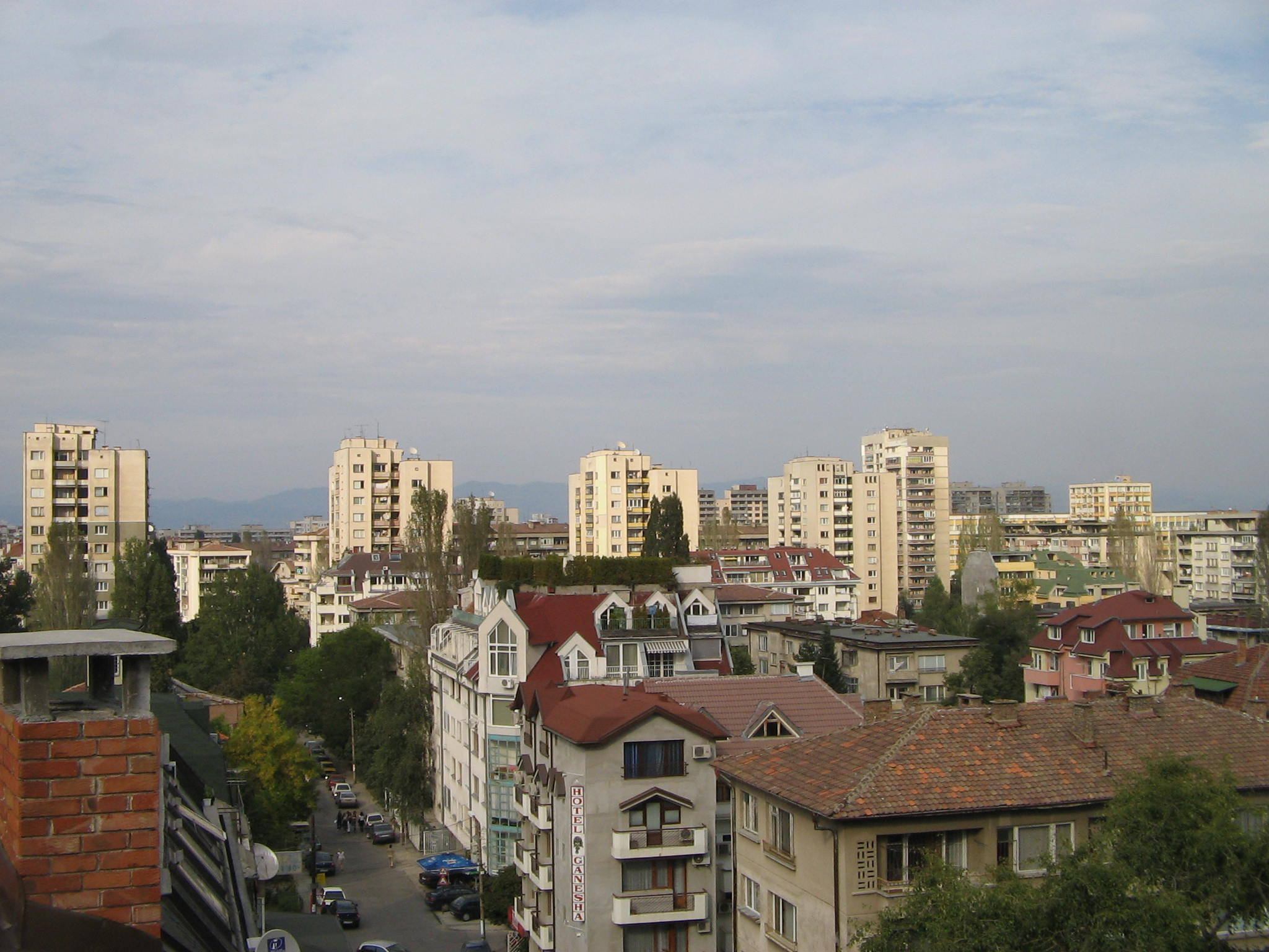 Picture taken by myself.